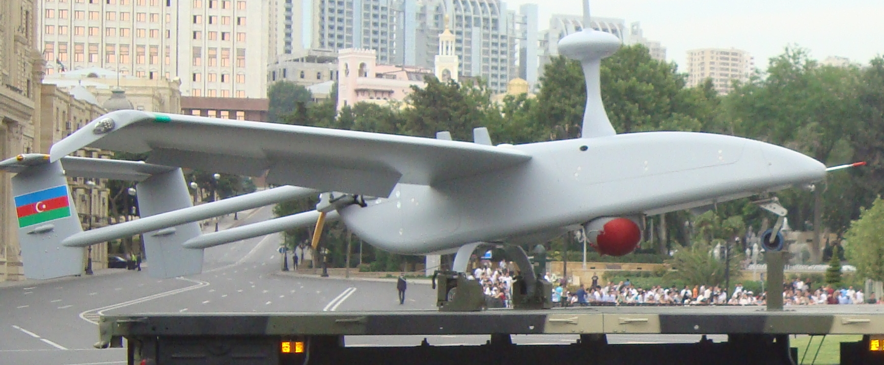 Azeri Aerostar